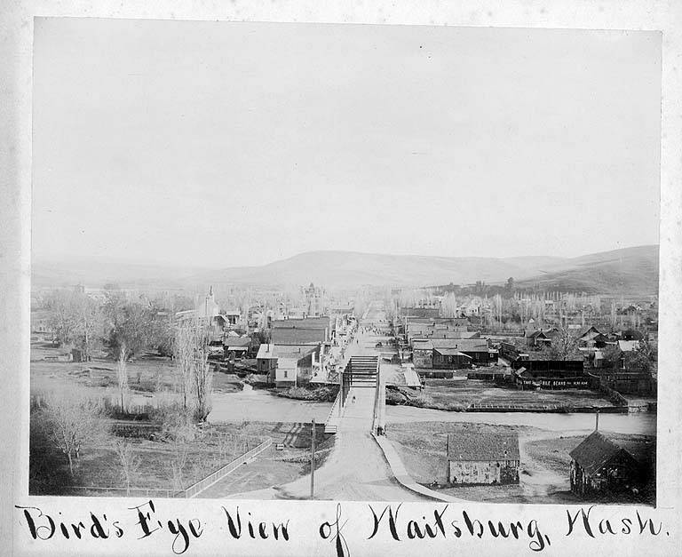 Caption on mount: Bird's eye view of Waitsburg, Wash. PH Coll 876.1 Subjects (LCSH): Waitsburg (Wash.)--Aerial photographs; Cities and towns--Washington (State)